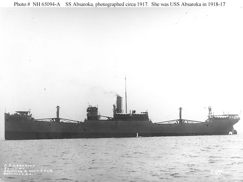 Probably photographed upon completion of construction, circa 1917. USN Photograph NH 65094-A